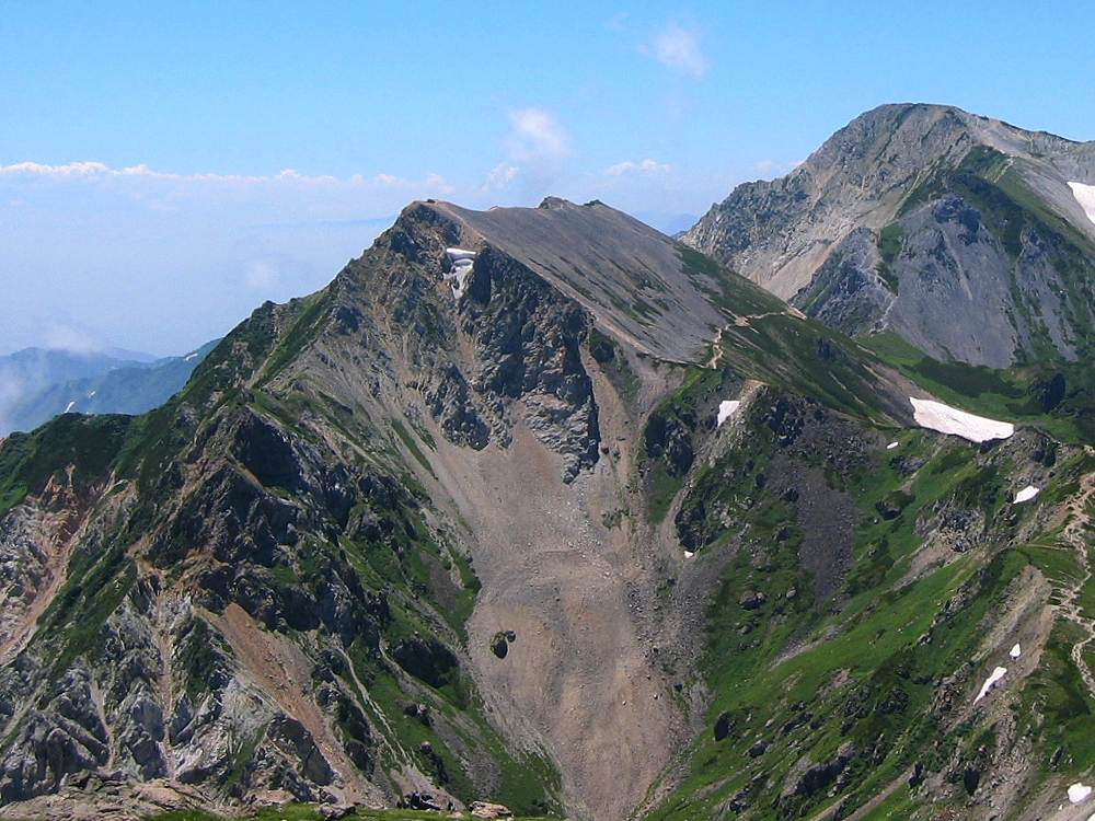 Mount Shakushi seen from Mount Shirouma